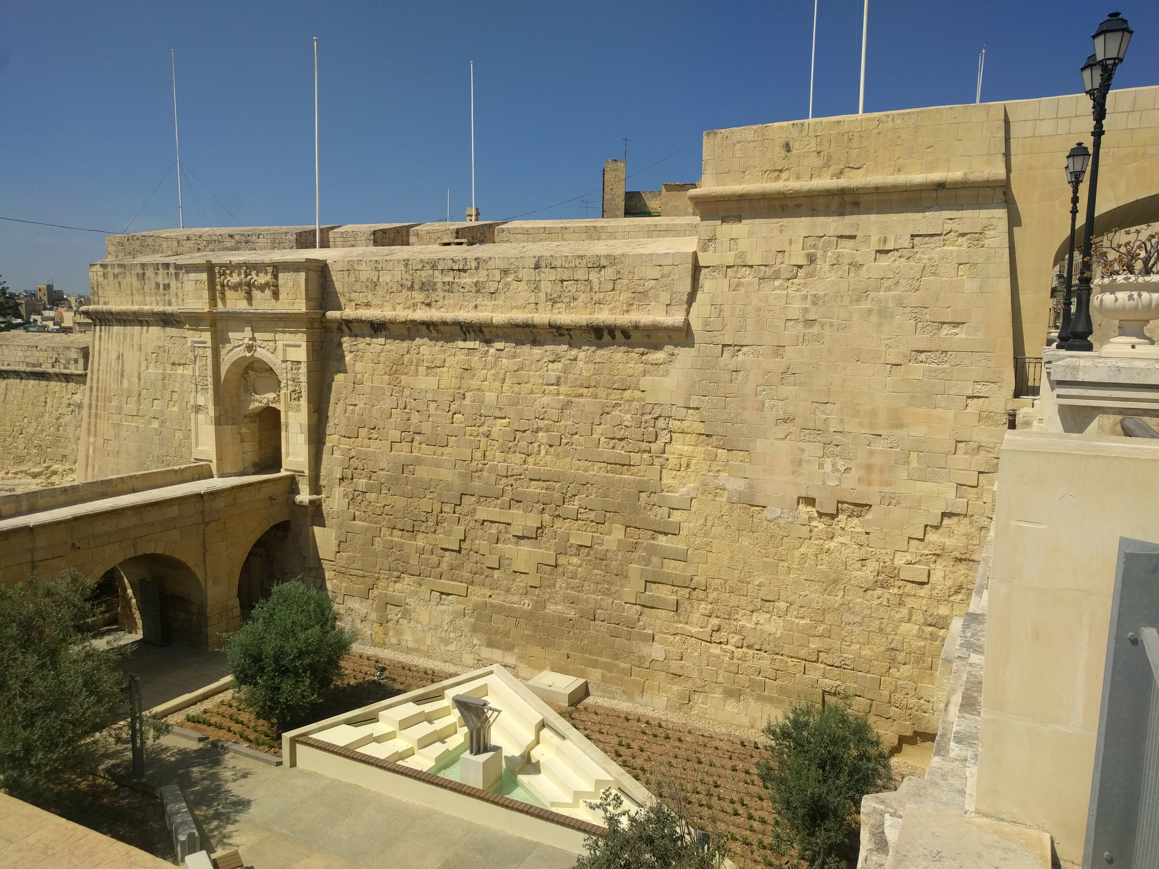 This media is about Maltese cultural property with inventory number 01508.